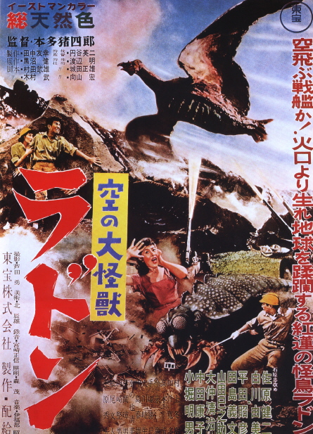 1956 Japanese movie poster for 1956 Japanese film Rodan (空の大怪獣 ラドン Sora no Daikaijū Radon).